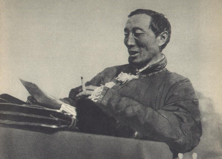 A photo of Tuvan leader Donduk Kuular